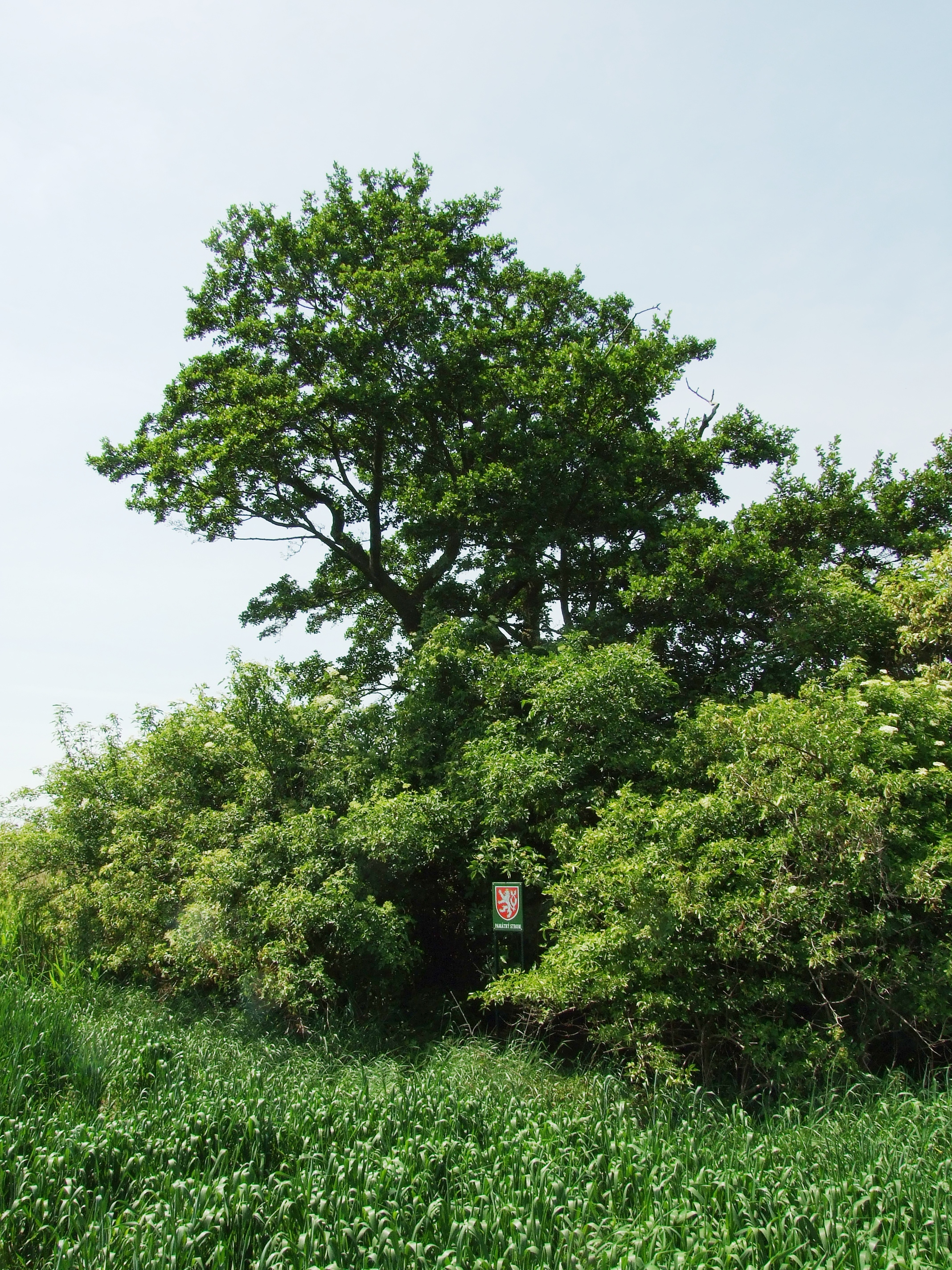 Sobín, a part of Prague near Central Bohemian region, CZ